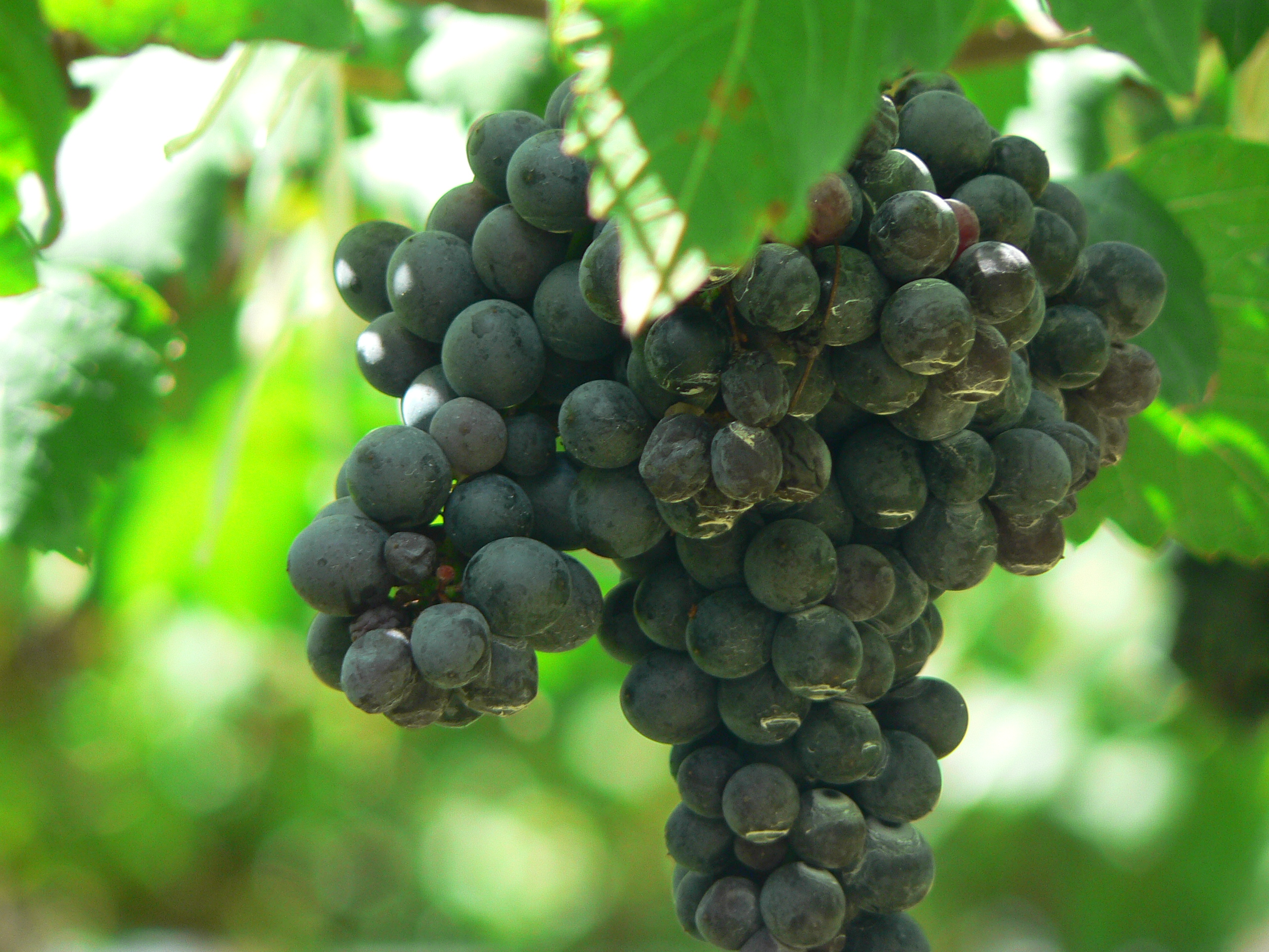 Clusters of Shiraz, or Syrah grapes. Note the deep color of the berries.